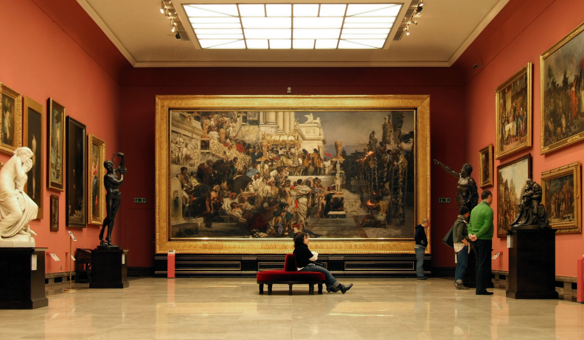 Sukiennice Gallery - Siemiradzki Room